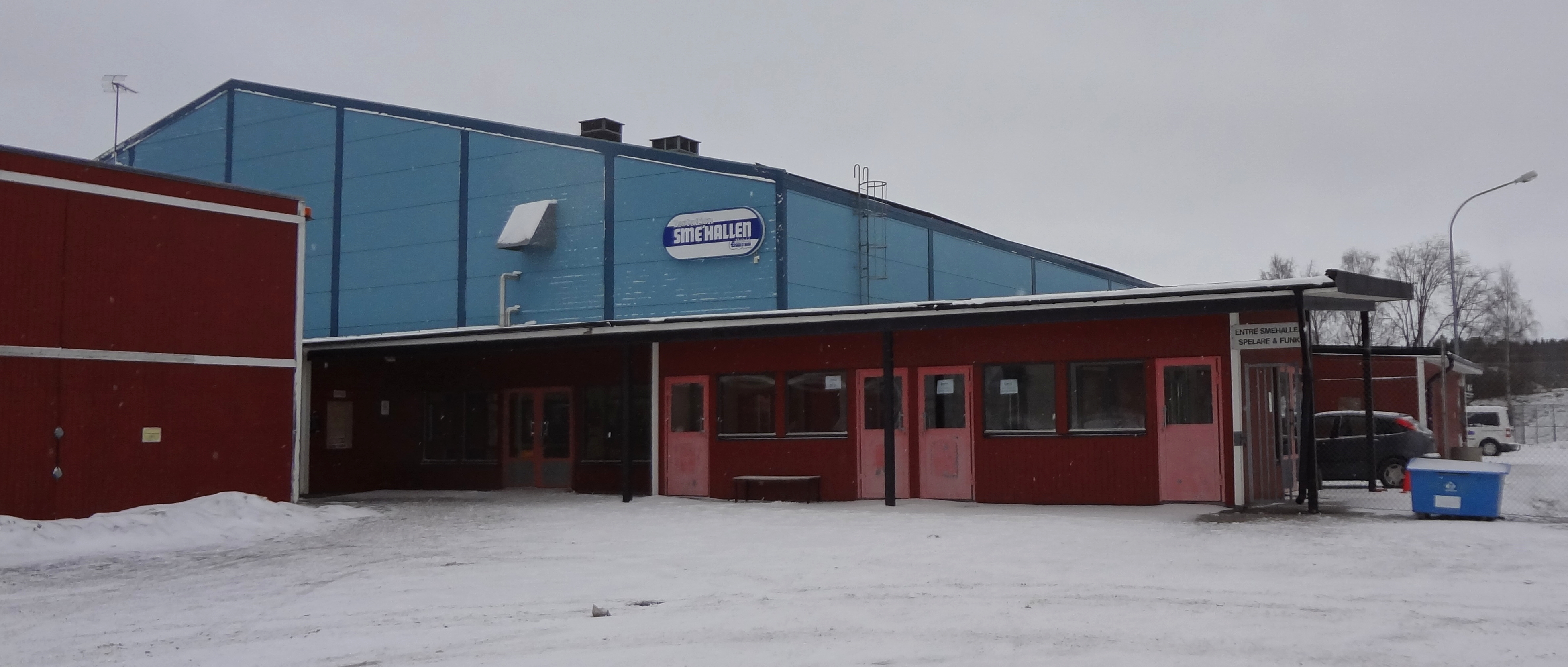 Ice hockey hall in Eskilstuna, Sweden.